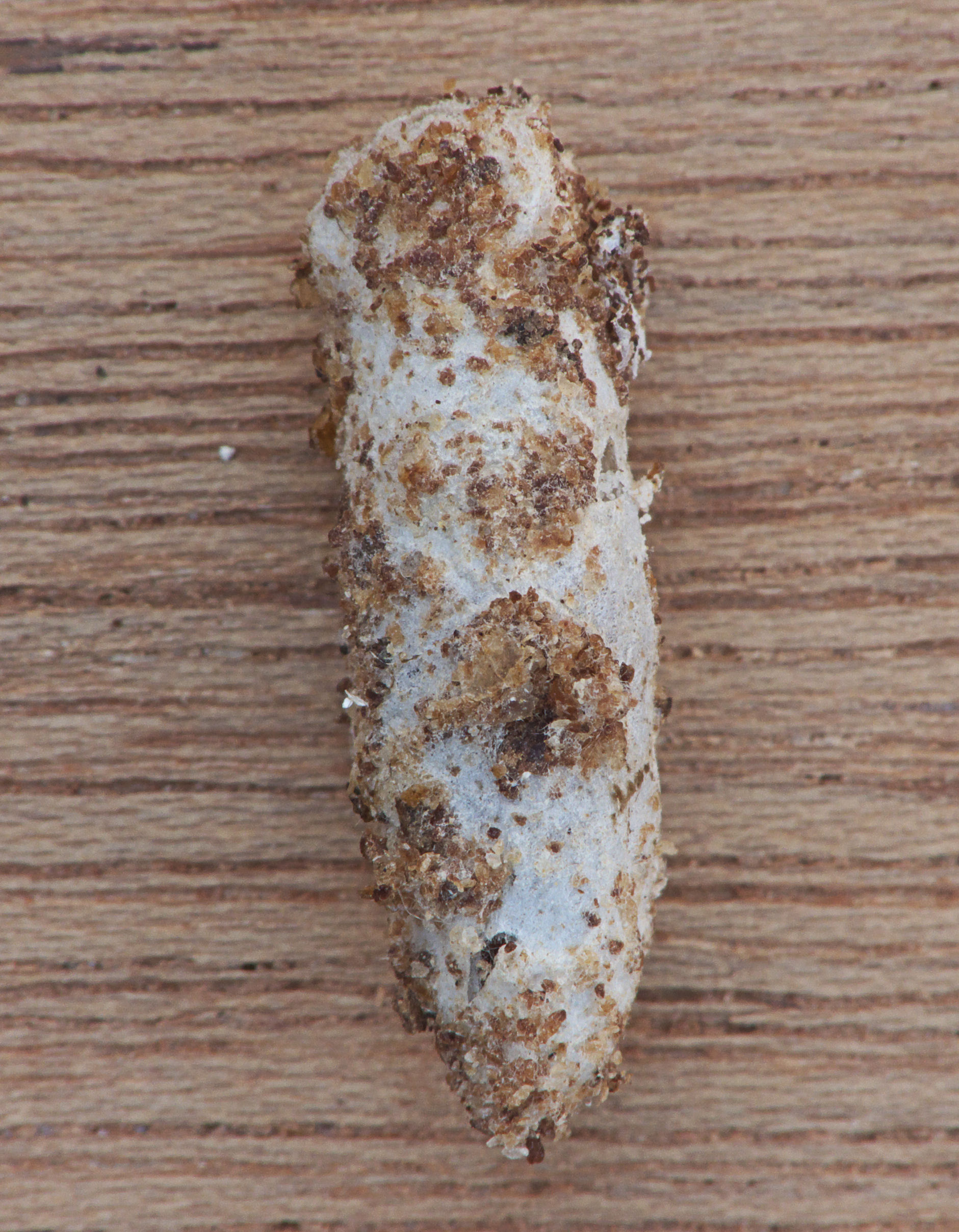 Galleria mellonella cocoon, length 23 mm